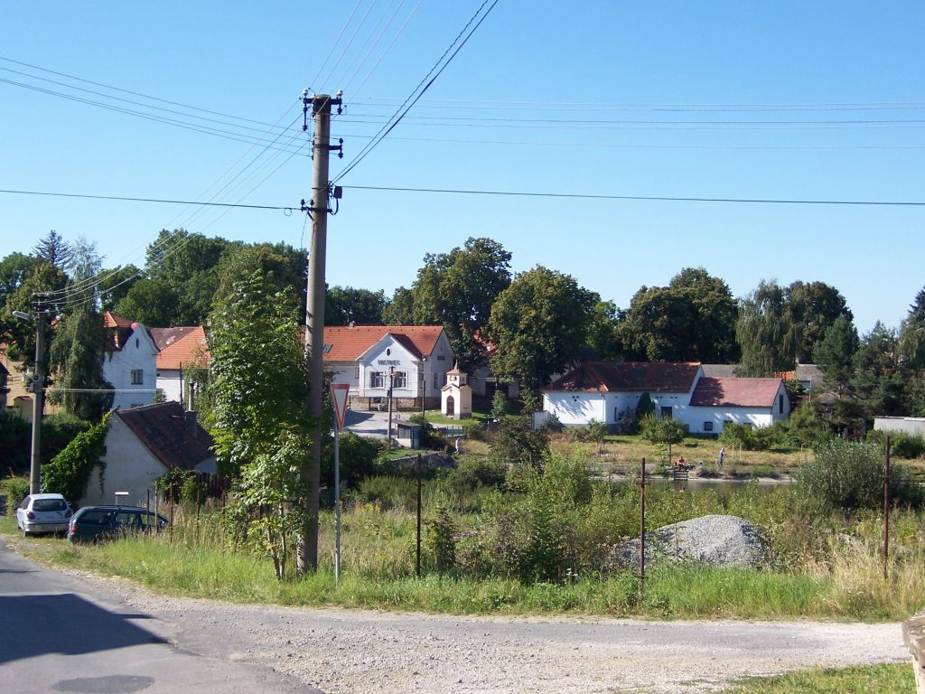 Vysoký Újezd, Kozolupy, center